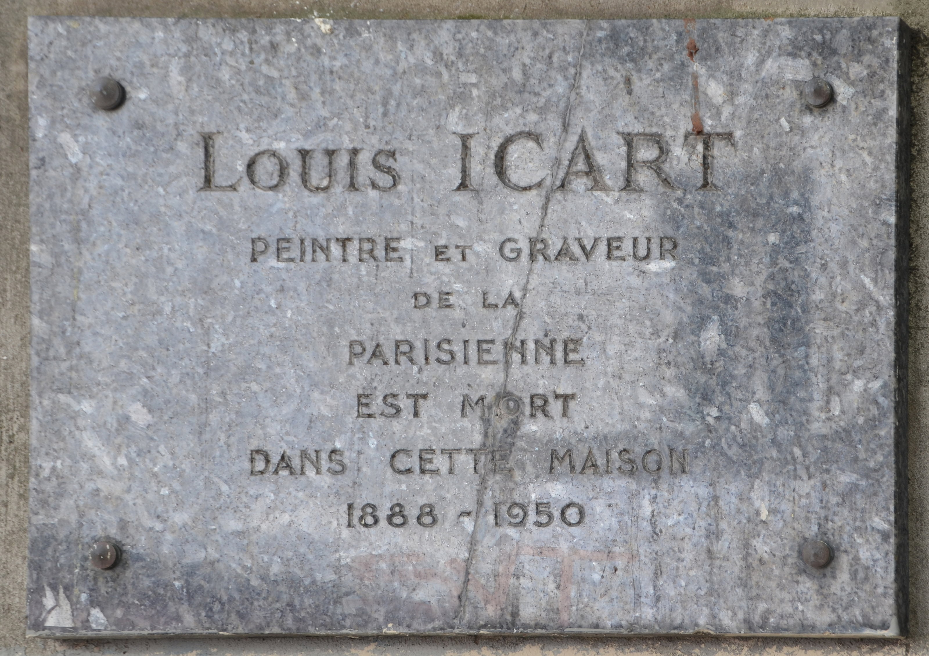 Read more about him here